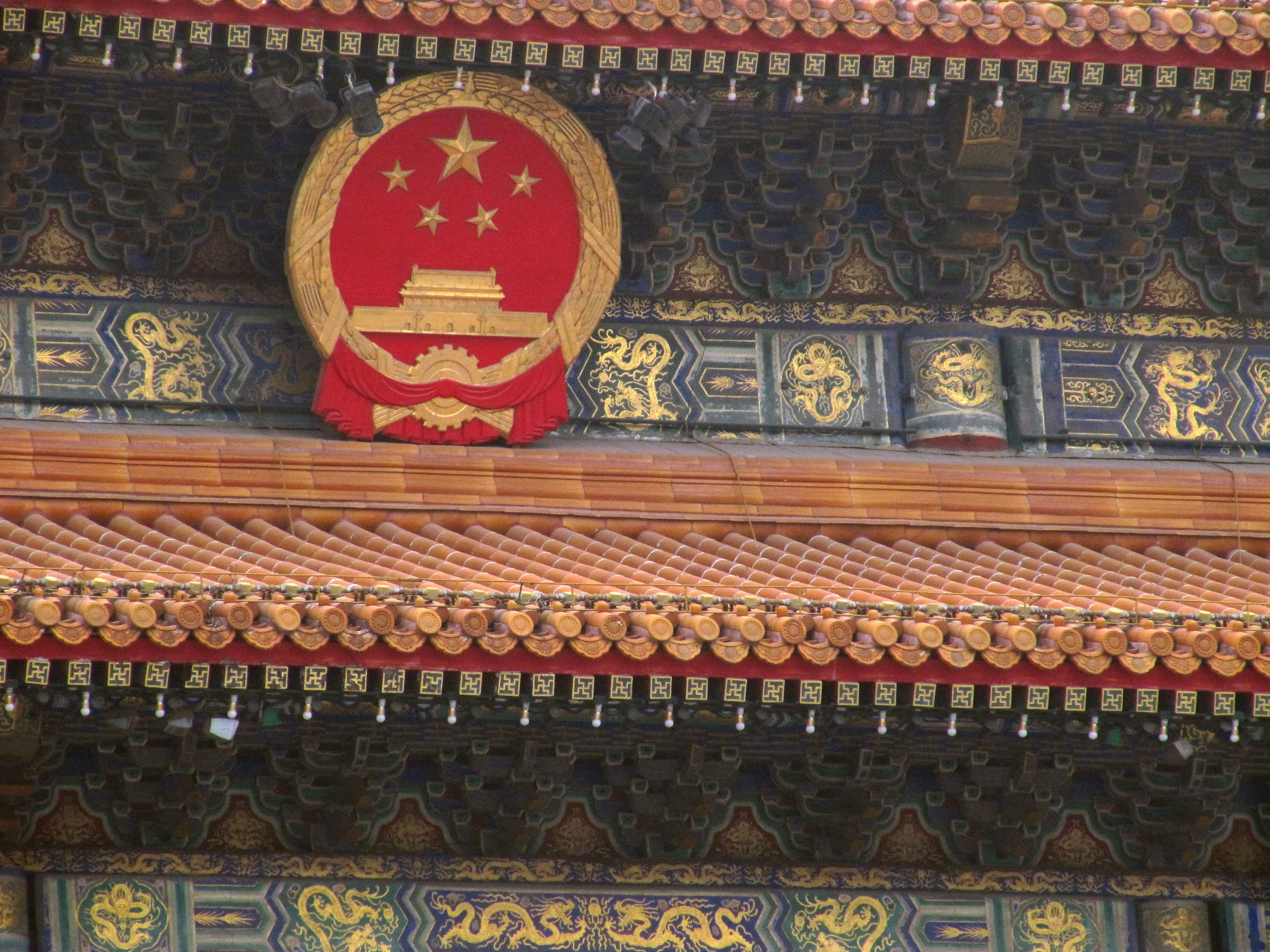 The National Emblem of the People's Republic of China hanging on Tiananmen.